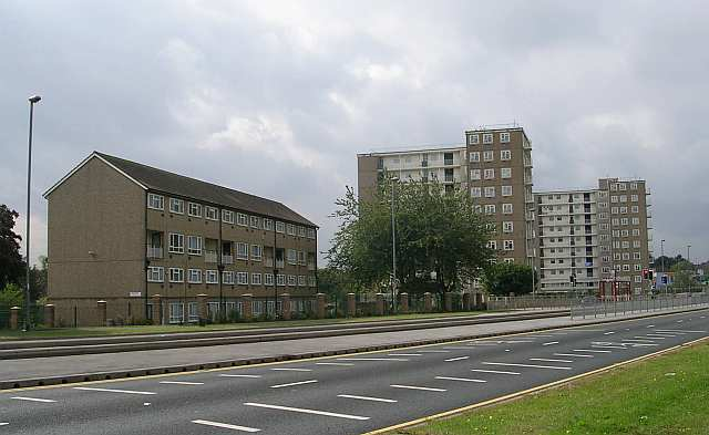 Highways Flats - York Road